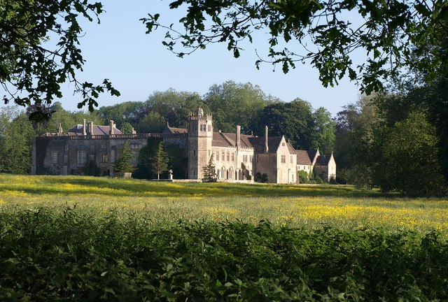 Lacock Abbey. From a similar position to 1337861, a view across the park from near the Avon causeway.